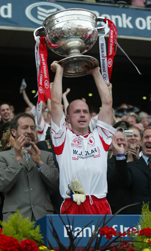 Peter Canavan lifting the Sam Maguire in 2003, having won the All-Ireland Senior Football Championship